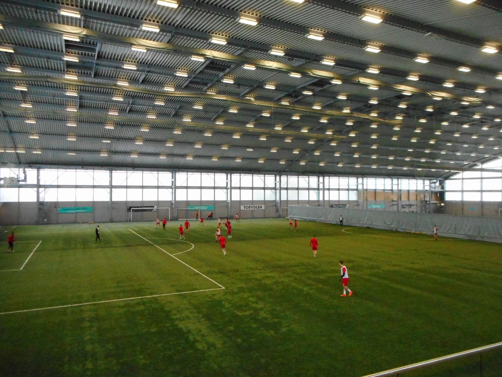 Indoor pitch, Toryglen Regional Football Centre